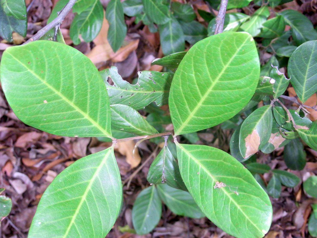 Alectryon coriaceus, labeled at Mount Annan Botanic Gardens, Australia